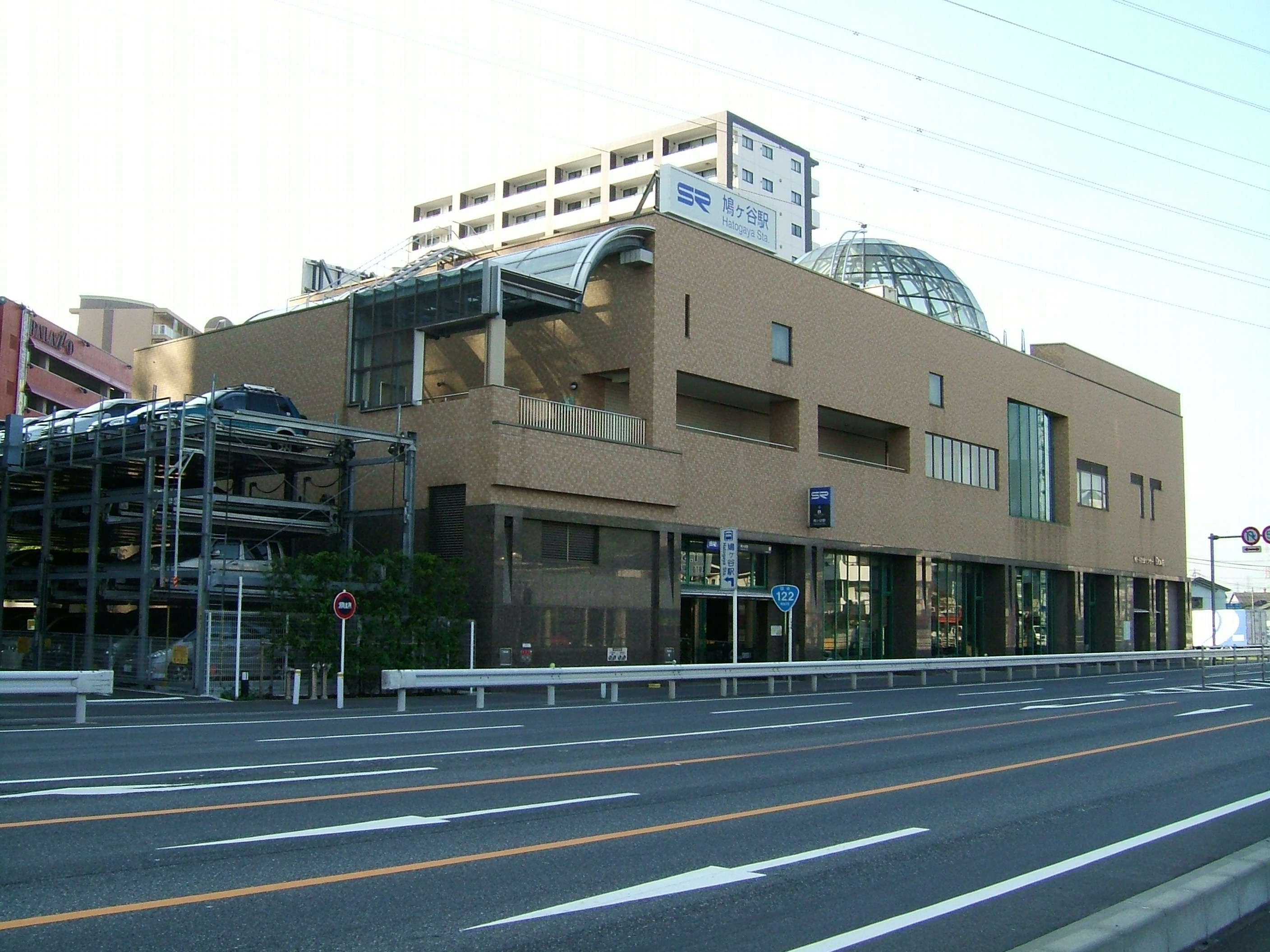 Hatogaya Civic Center and the entrance to Hatogaya Station on the Saitama Rapid Railway Line